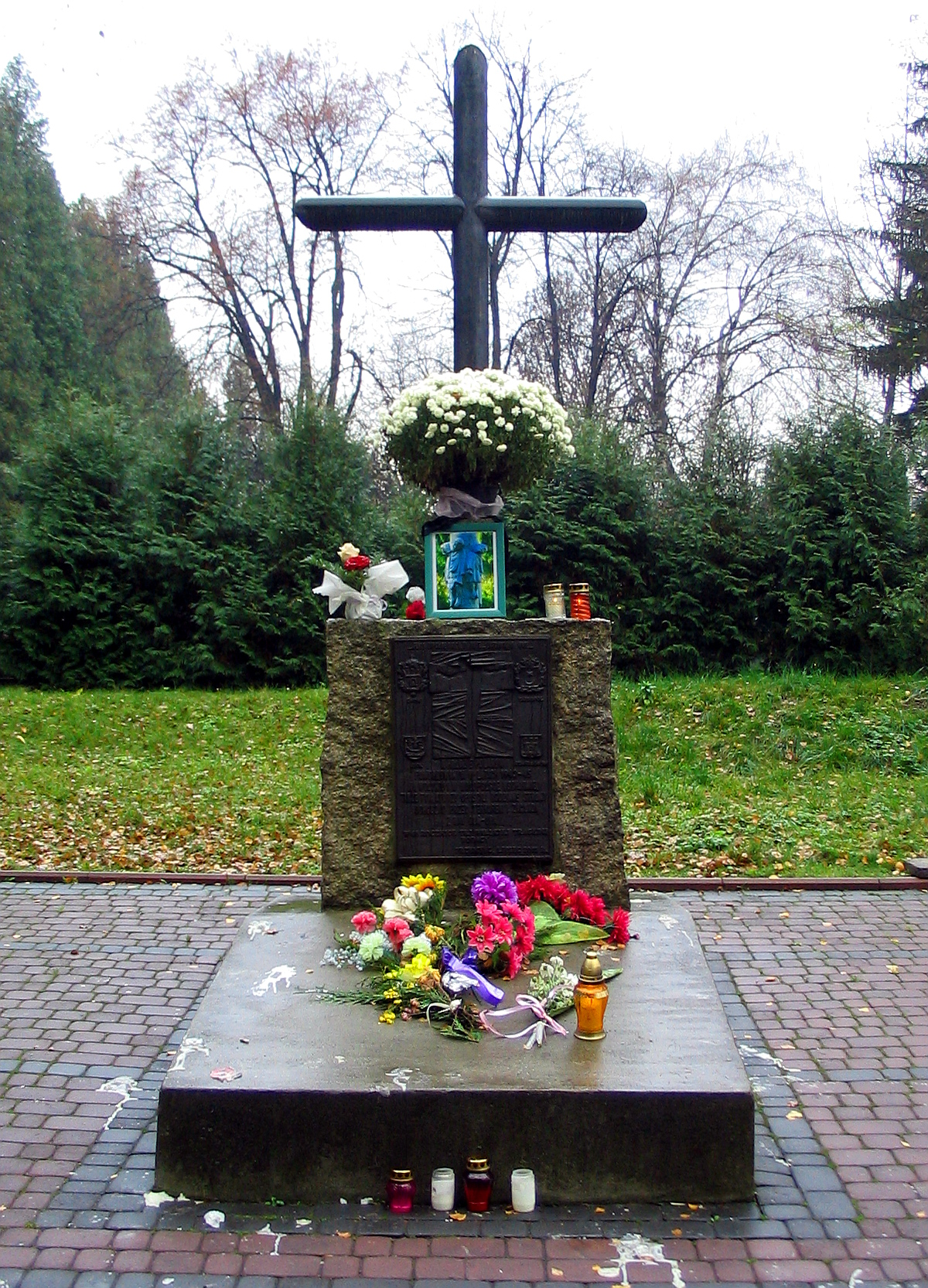 Monument of Poles killed by UPA in 1943-1945 - Przemyśl, Poland.